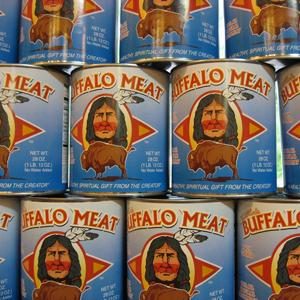 Cans of bison meat on the shelves at the Three Rivers Café and co-op in Indiana.